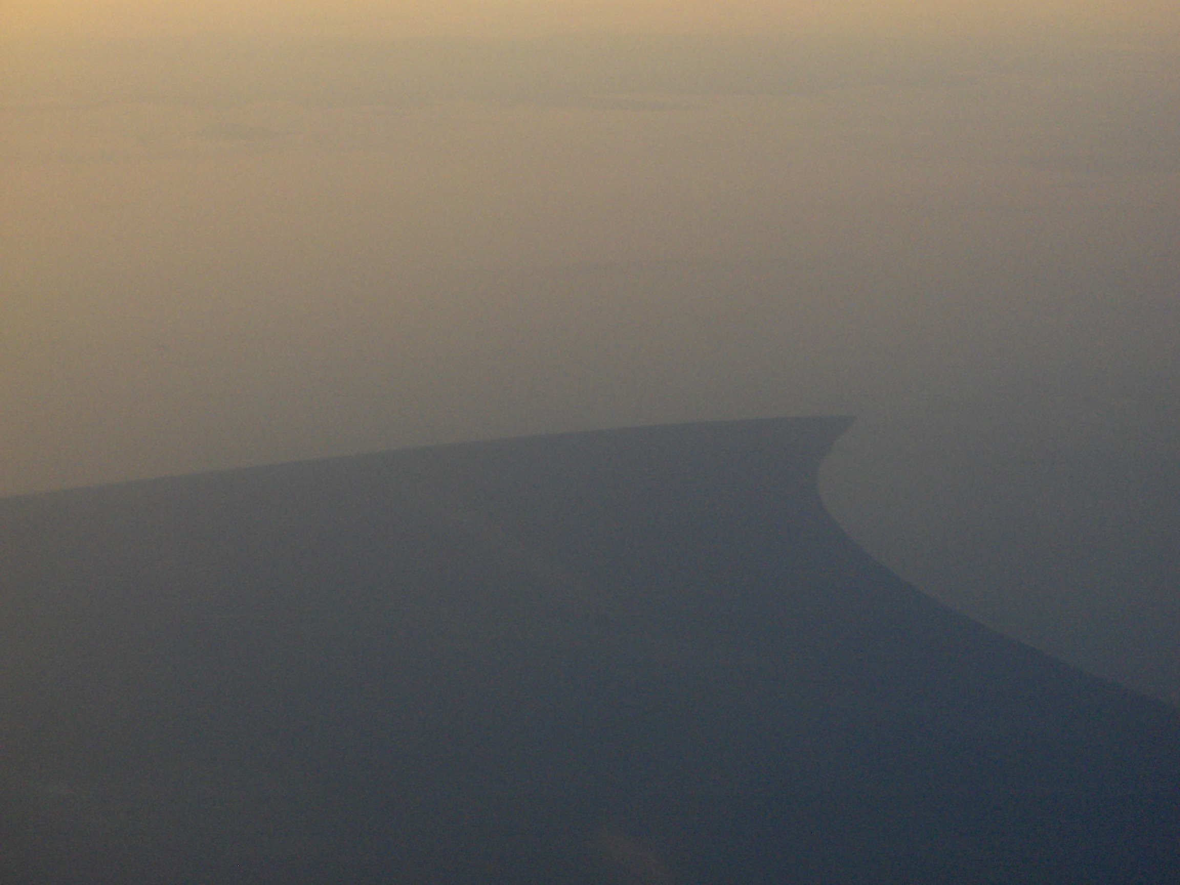 Kolka cape